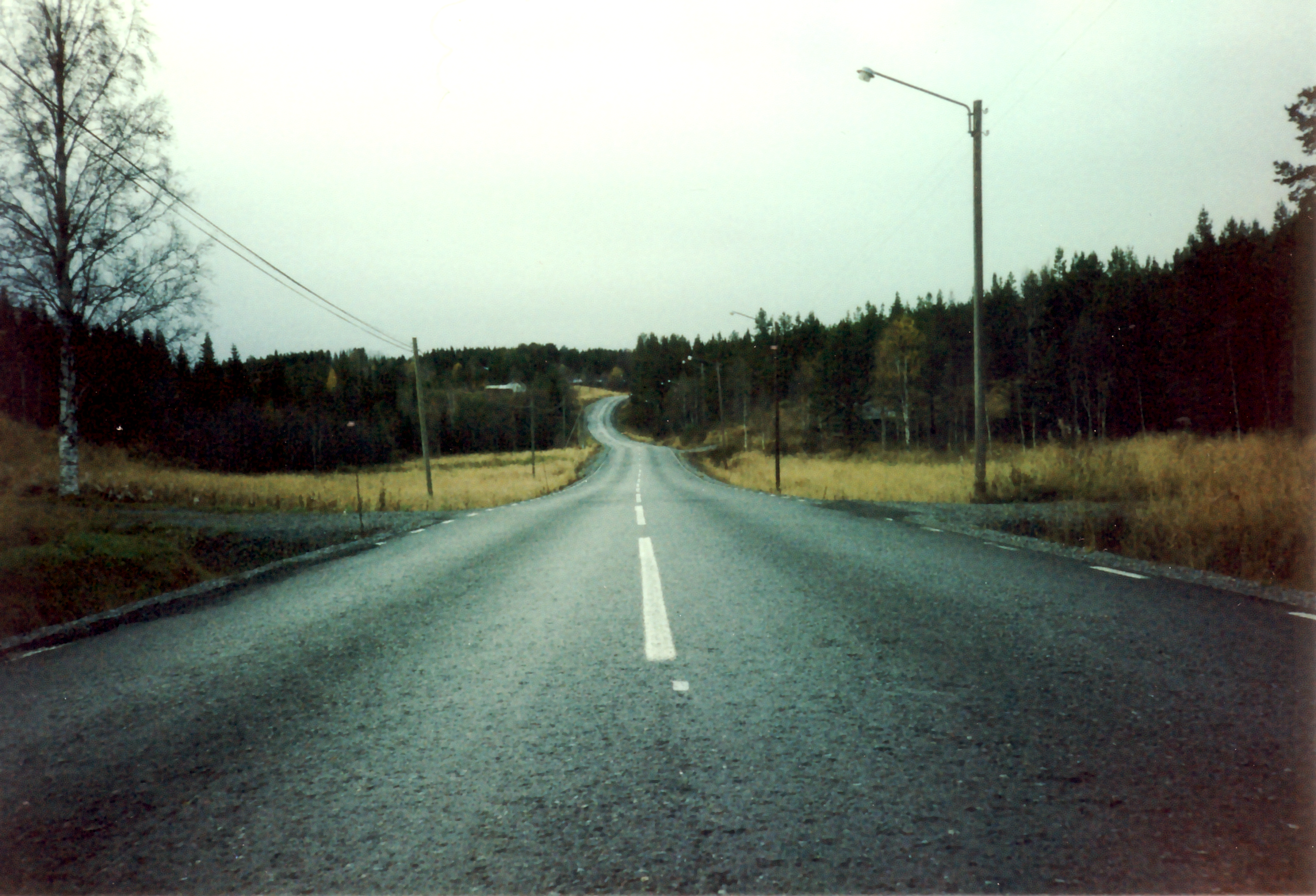 Länsväg (country road) Z 998 looking north at the borders of Västertåsjö and Högnäset.